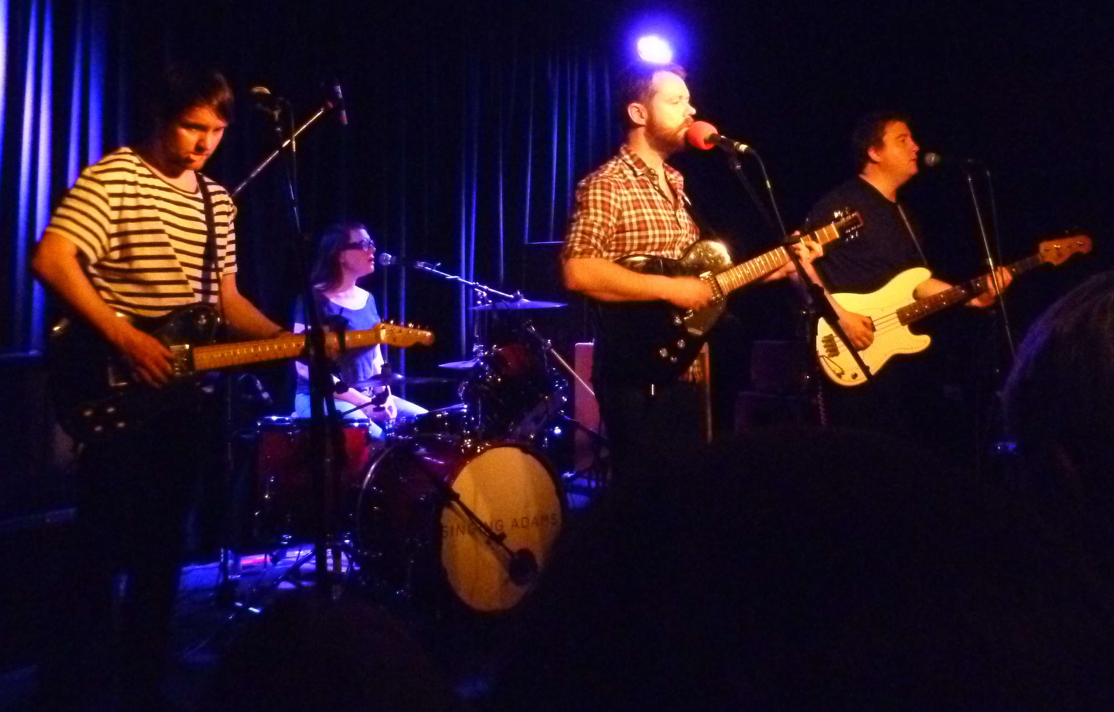 Singing Adams at the Lexington, April 19th, 2011.